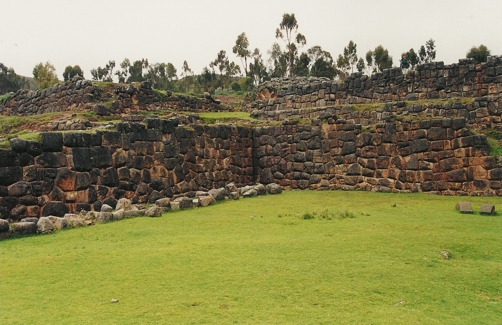 Chinchero Archaeological site (overview)